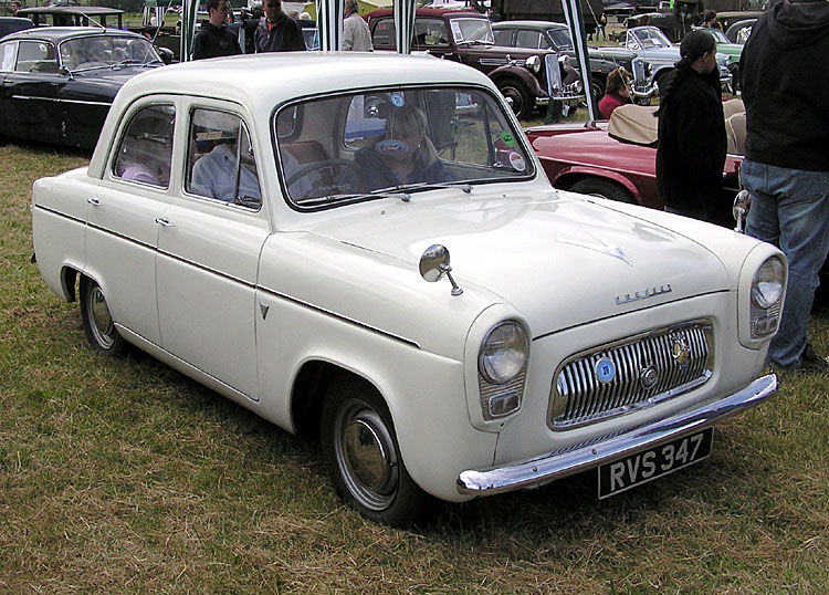 Ford Prefect of 1959, at Yate Car Show, Yate, Bristol, England.